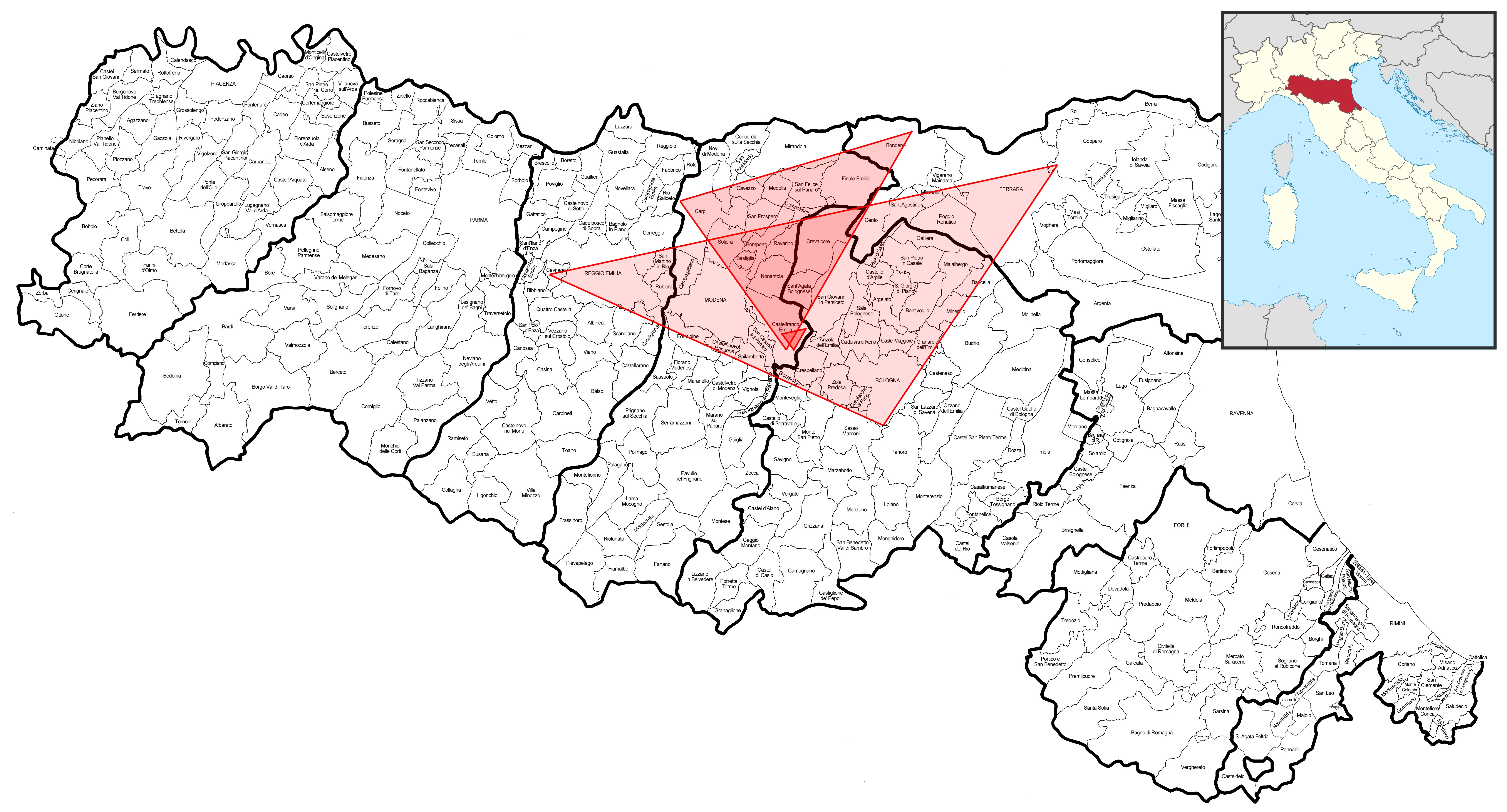 Localization of the so called "triangolo rosso" (red triangle) or "triangolo della morte" (death triangle) in Emilia, a region of Italy